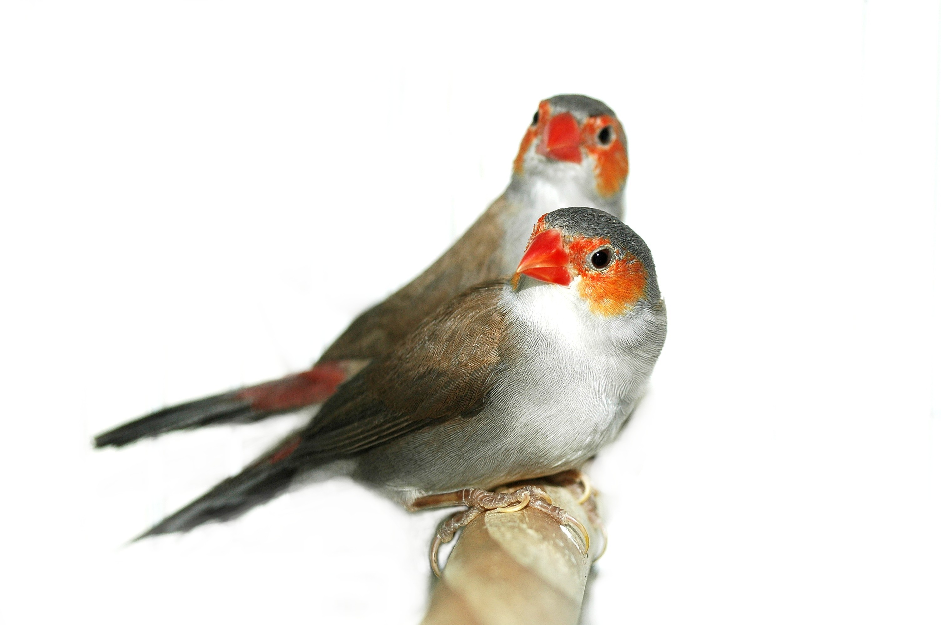 Zack and Zill, an Orange-cheeked Waxbill pair.